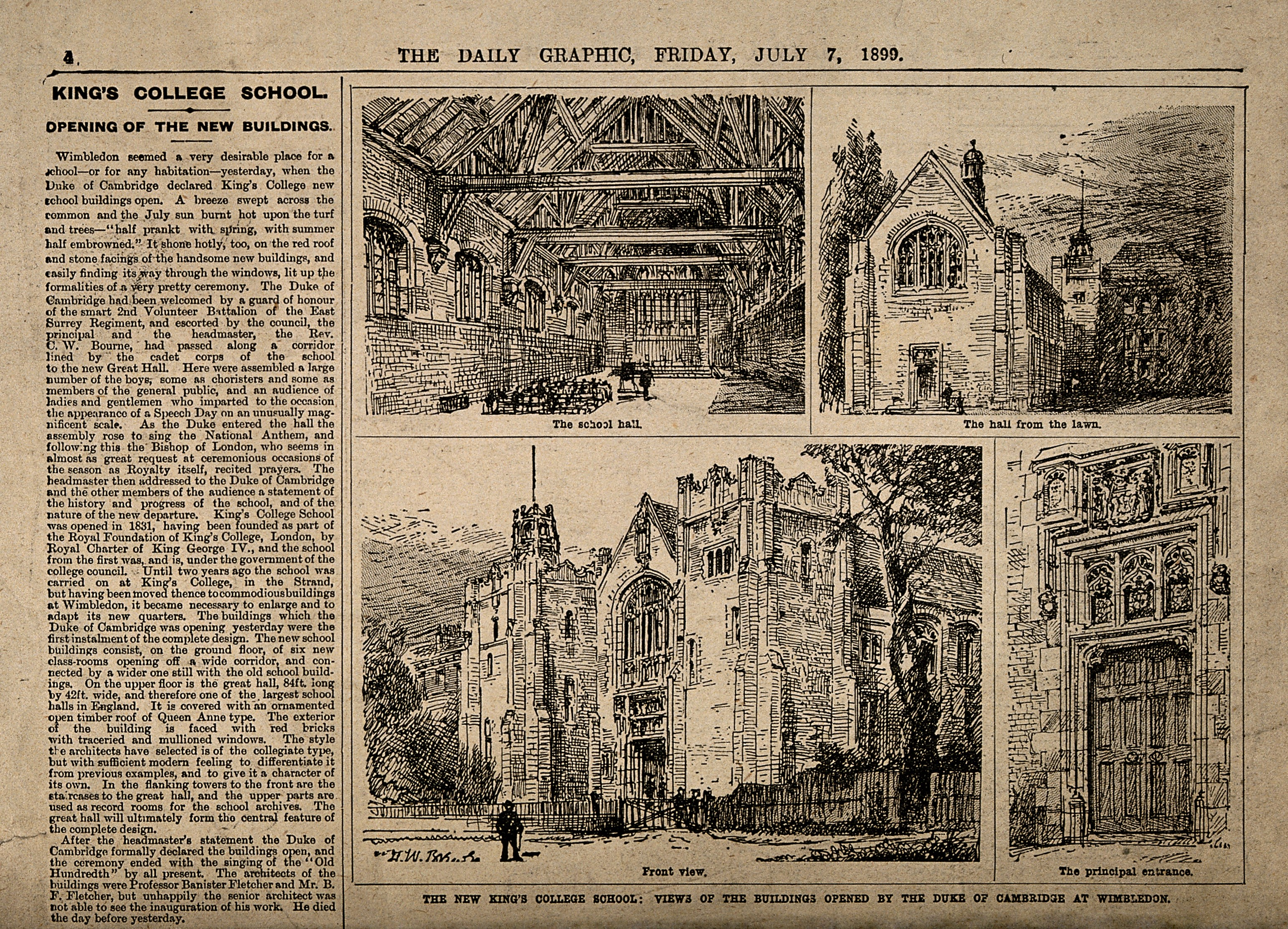 King's College School, Wimbledon, London: four sketches of the interior and exterior. Wood engraving by A.W. Brown, 1899. Iconographic Collections Keywords: A.W. Brown; King's College School (Wimbledon, London, England)